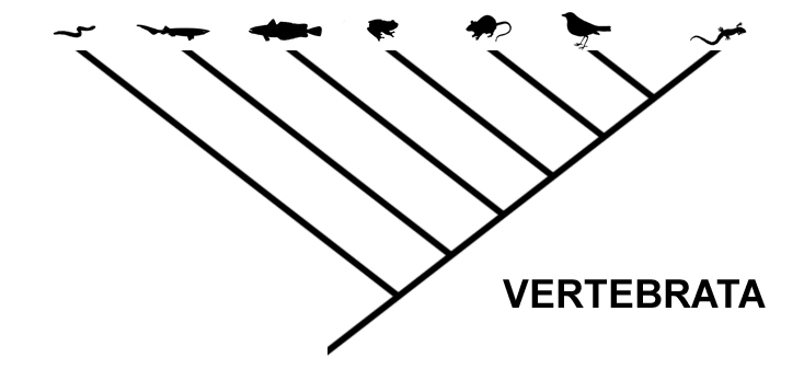 Cladogram of Vertebrata, showing the same evolutionary relationship as the file File:Spindle diagram.jpg